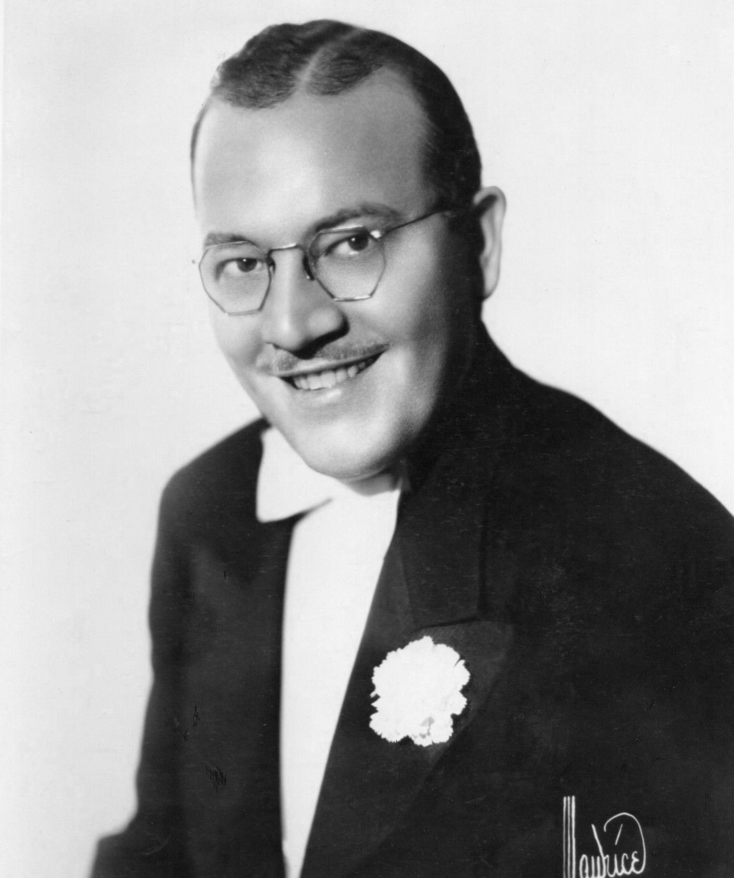 Photo of musician, vocalist and bandleader Pee Wee Hunt.